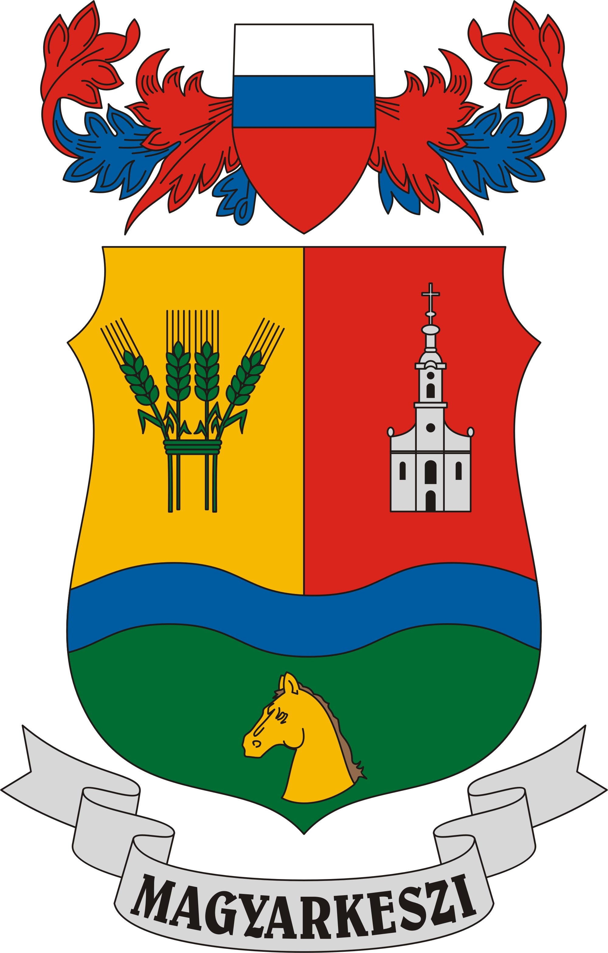 Coat of arms of Magyarkeszi, Hungary